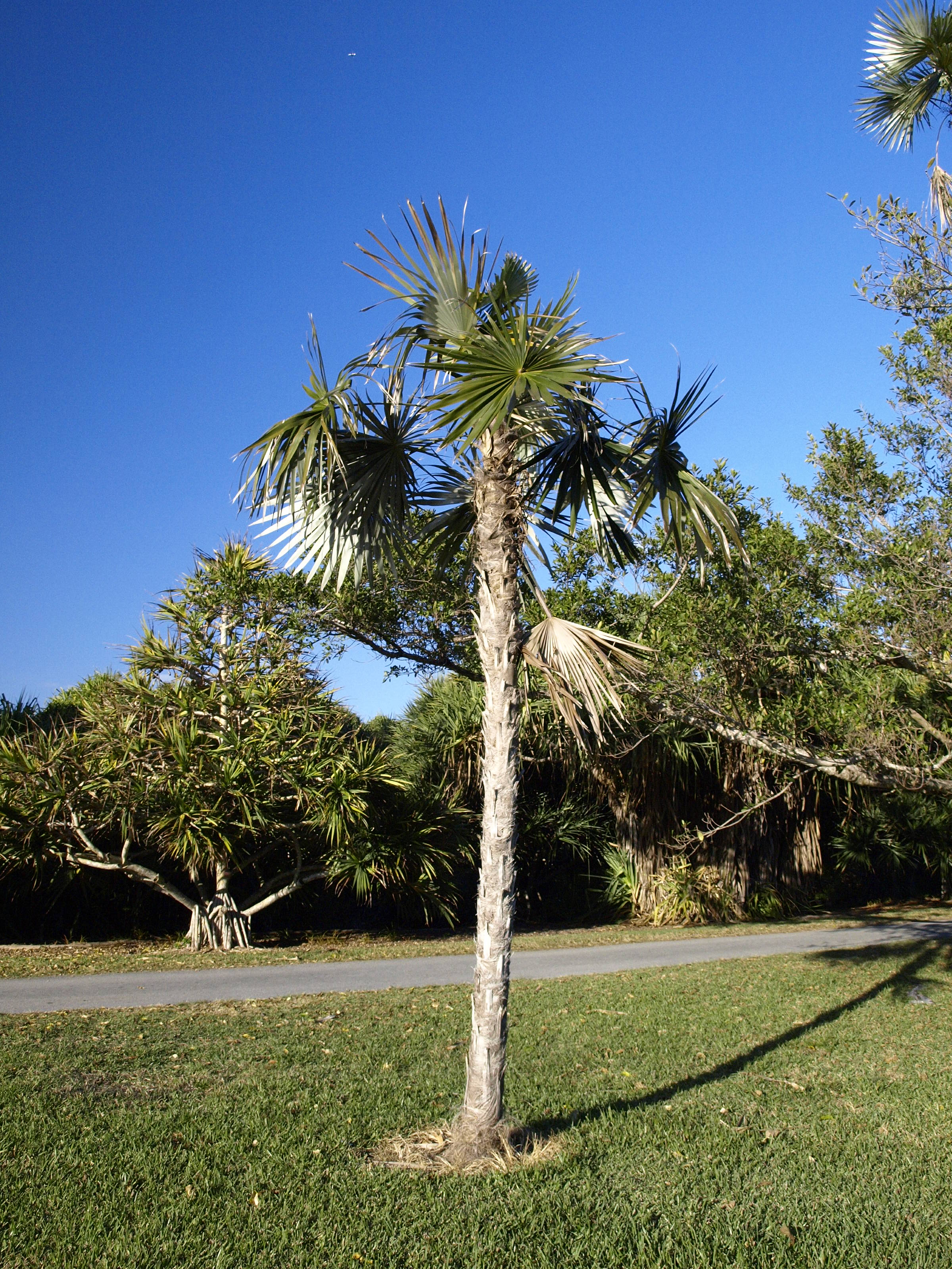 Coccothrinax salvatoris, Fairchild Tropical Botanic Garden, Miami, FL, USA.